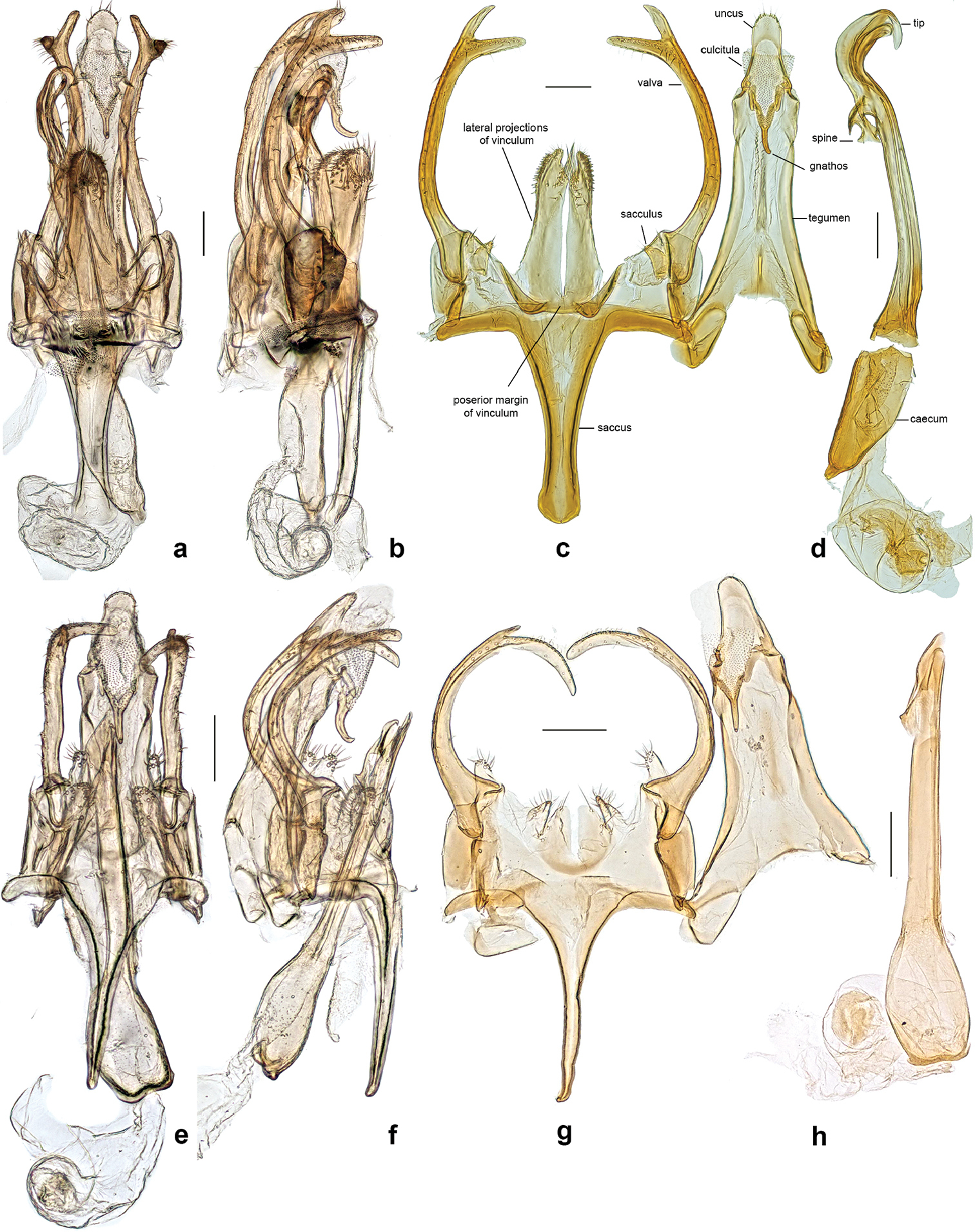 Male genitalia of Neopalpa species. a–d N. neonata e–h N. donaldtrumpi. a, b ventral and lateral view of intact genitalia, unmounted, stored in lactic acid (LACMENT326710, CA: Riverside County) c, d Unrolled genitalia and phallus of the Holotype (EMEC82306, dissection Pw1168) e, f ventral and lateral view of intact genitalia, unmounted, stored in lactic acid (UCRC ENT 461717, CA: Riverside County) g, h Unrolled genitalia and phallus of the Holotype (UCBME021628; dissection VNZ241). Scale bar 100 μm.